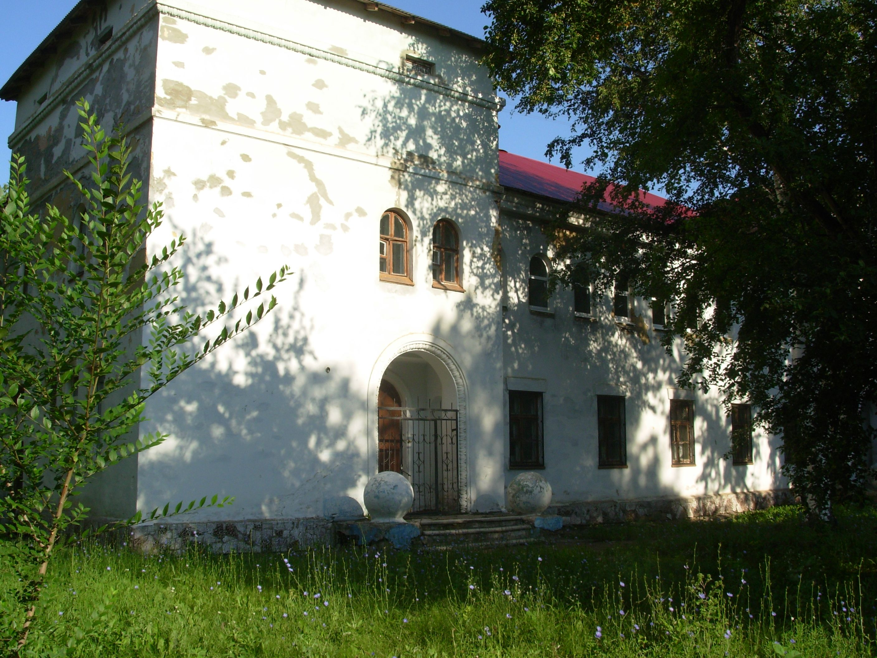 street